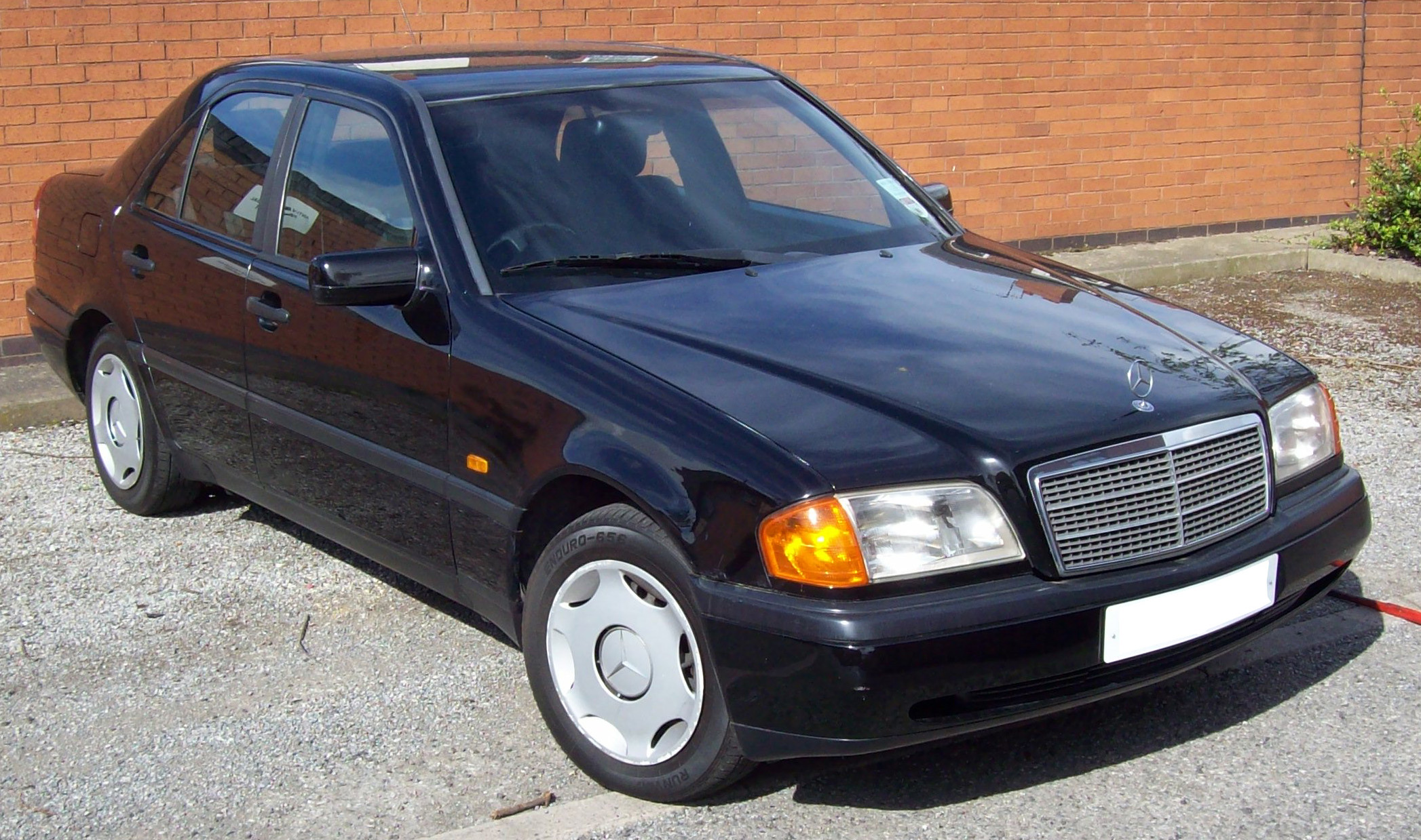 Pre Face-lifted W202 C Class Esprit